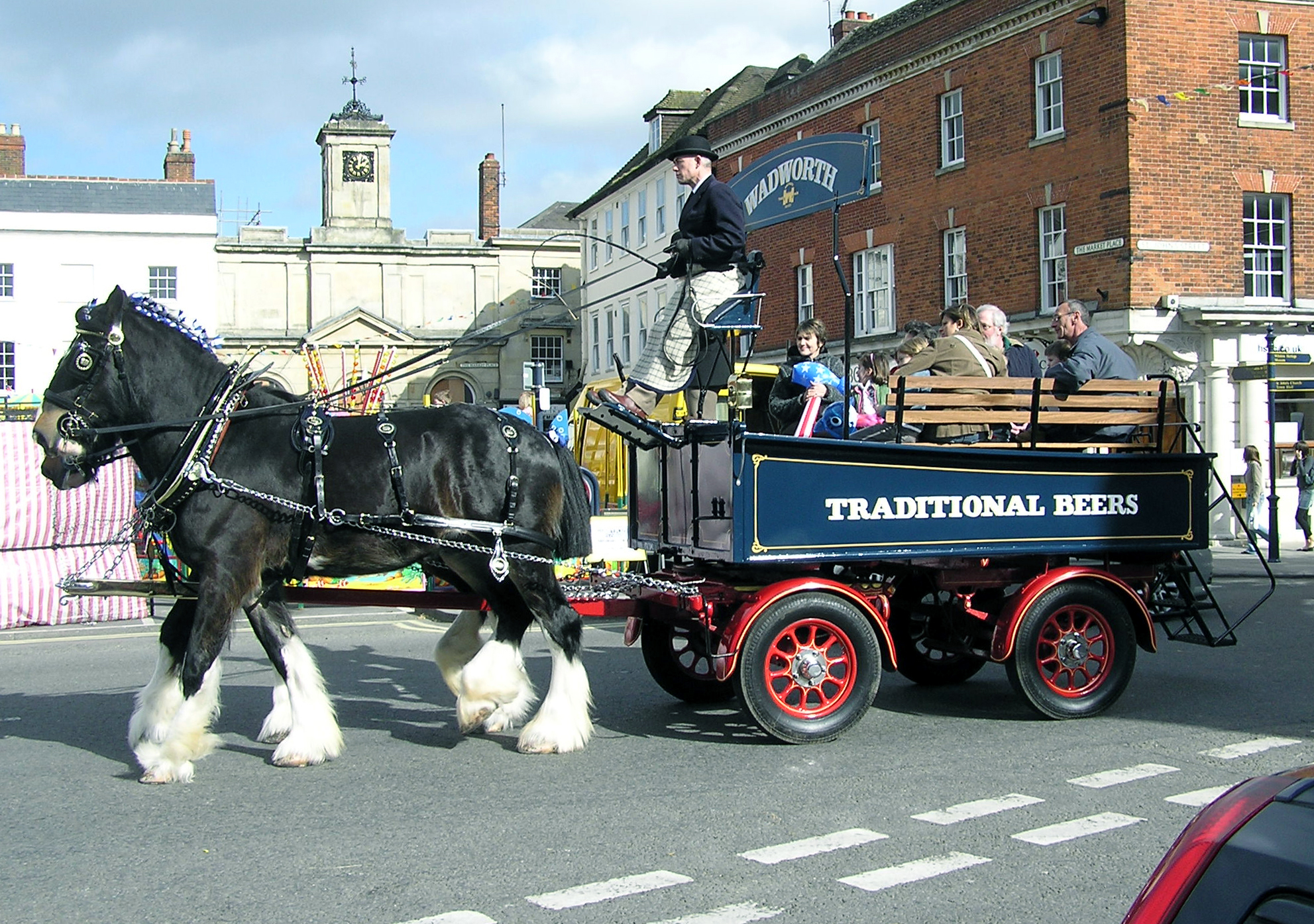 The Wadworths brewery dray in Devizes, Wiltshire, town centre. Pulled by two Shire horses, it delivers beer every weekday morning to four pubs in the area. The horses and dray also attend fairs and parades. Wadworths were founded in 1875 and the horses introduced in 1974. Photographed by Adrian Pingstone in March 2007 and placed in the public domain.